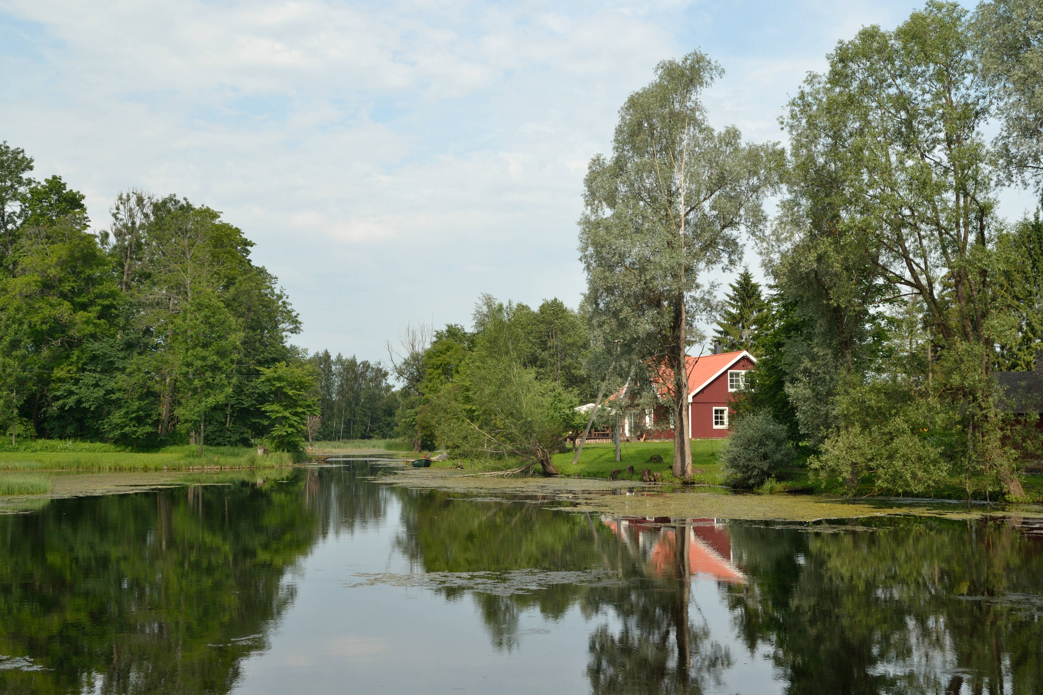 Pärsti impounded lake (Valuoja stream)